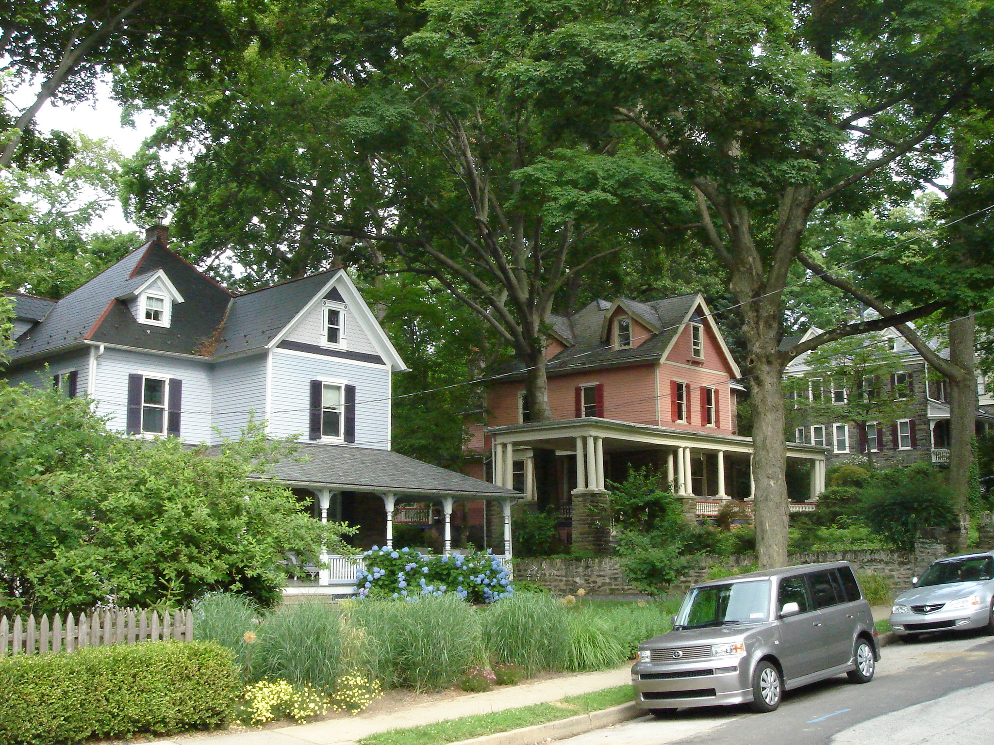 Victorian-era homes in Wyncote PA USA